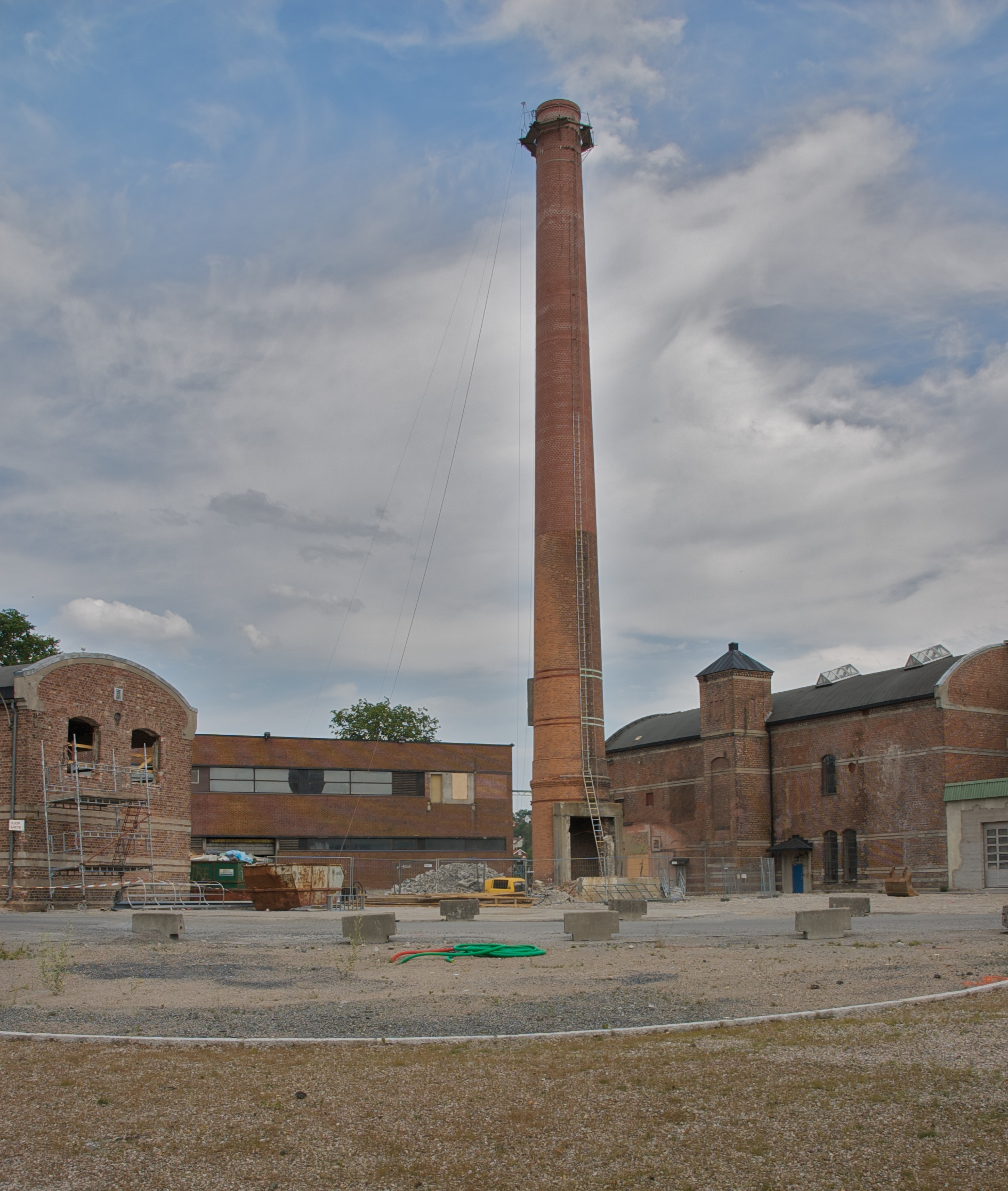 Demolition (and conservation) of old paper mill on Klosterøya, Skien, Norway.